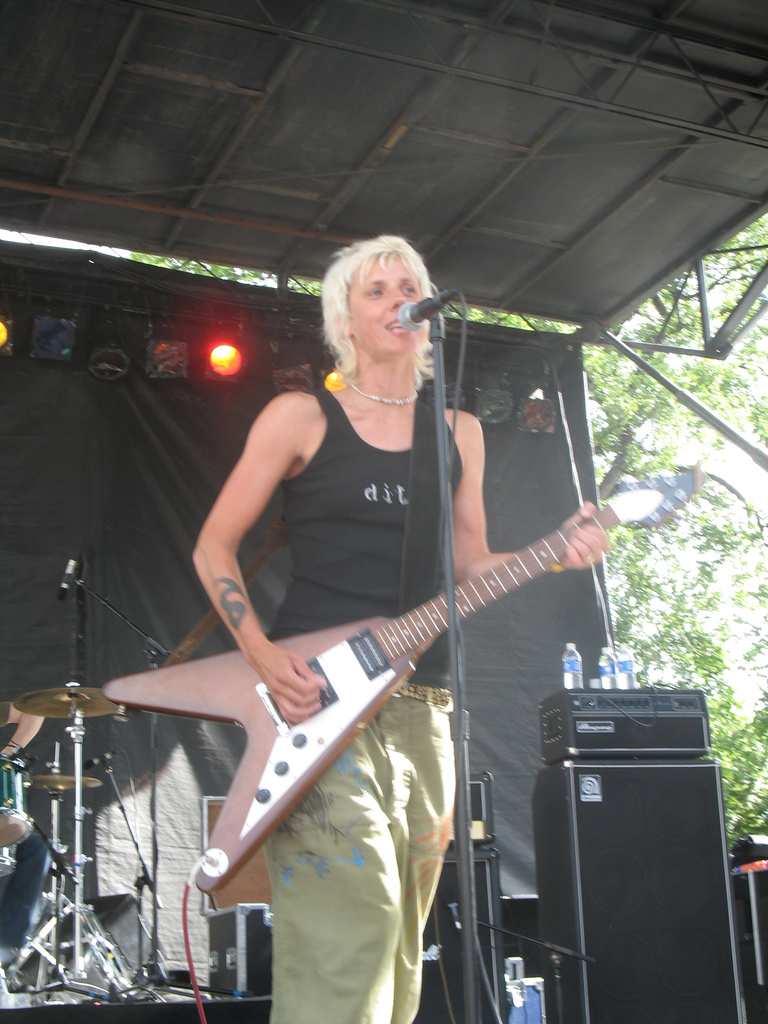 Sarah Bettens, former singer of K's Choice at the Utah Pride Festival 2006